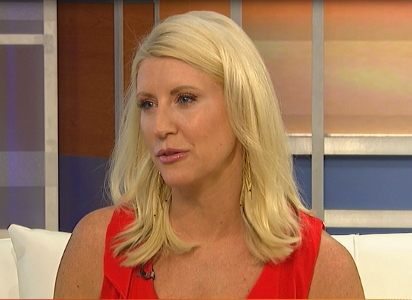 Michaela Guzy discussing travel on The Morning Blend.